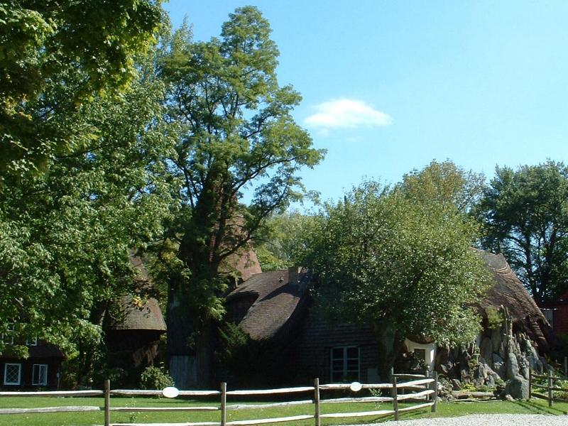 Santarella, home of sculptor Henry Hudson Kitson, in Tyringham, Massachusetts. Santarella, Main St, Tyringham, MA